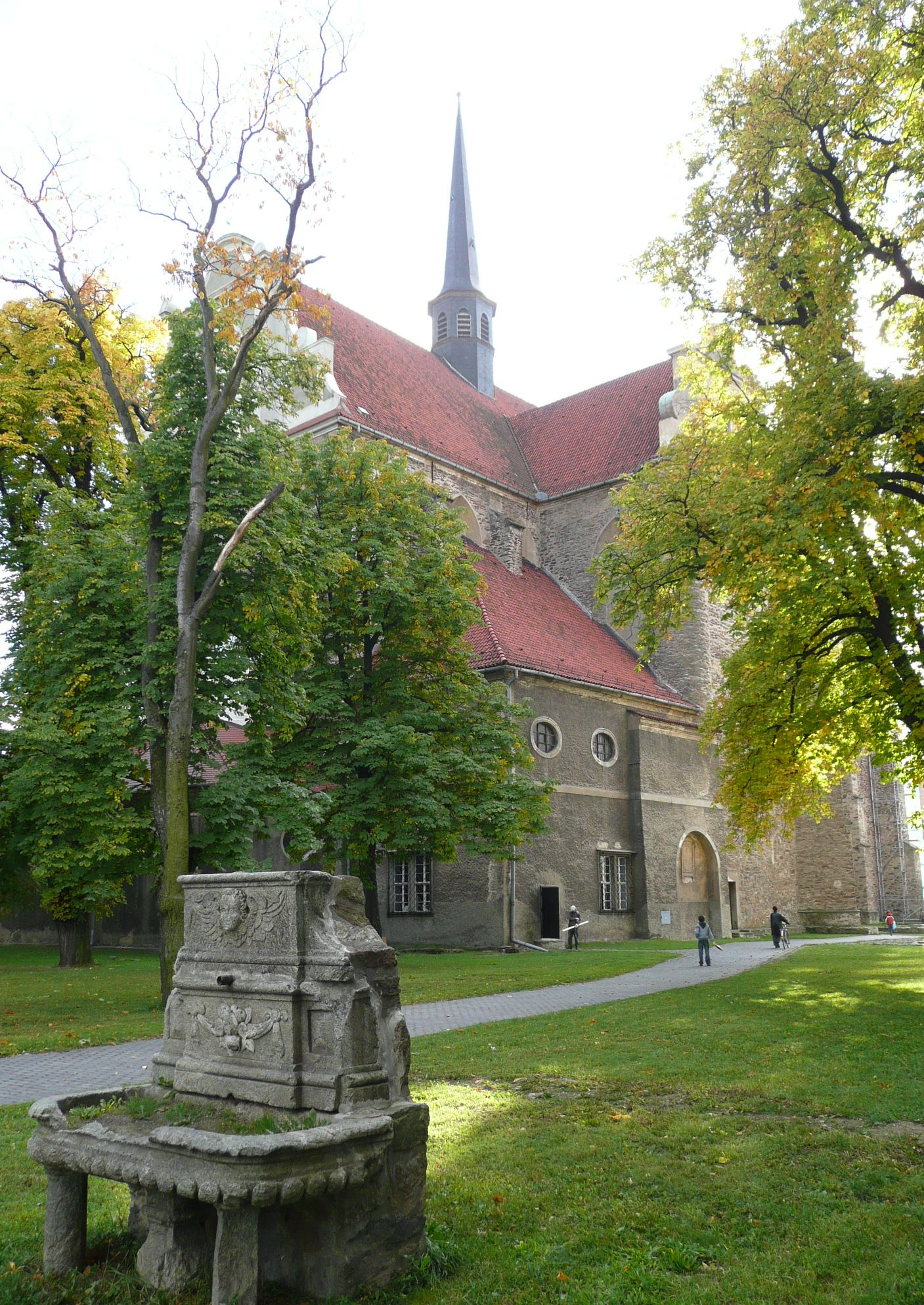 Church in Kamieniec Zabkowicki from garden site